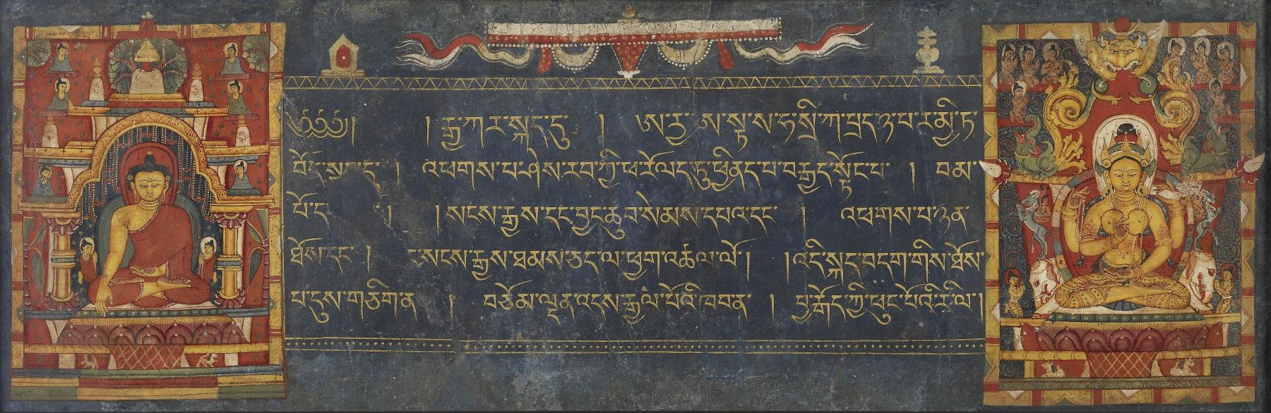 This is a leaf from a "Prajnaparamita" (Perfection of Wisdom) manuscript. The text, written in Tibetan language and script, is a translation of a Sanskrit text that was produced in India as much as a thousand years earlier. The translation of hundreds and hundreds of texts into Tibetan was an immense cultural achievement. On the left appears the Buddha Shakyamuni on the night of his enlightenment at Bodhgaya. The tree under which he was enlightened appears above the temple. The goddess at right is Prajnaparamita, a personification of the text or an embodiment of its words. This is the first leaf. The last leaf includes a statement that this sacred object was commissioned by two children for the use of their parents, following their rebirth on earth.